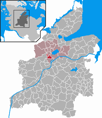 Locator maps of municipalities in Schleswig-Holstein - District Rendsburg-Eckernförde